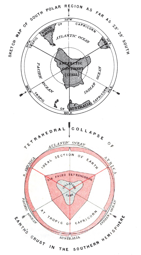 Illustration of Tetrahedral hypothesis for the Earth's formation by 1875 publication of William Lowthian Green. Green (1819–1890) was an English adventurer and merchant, who later became cabinet minister in the Kingdom of Hawaii.